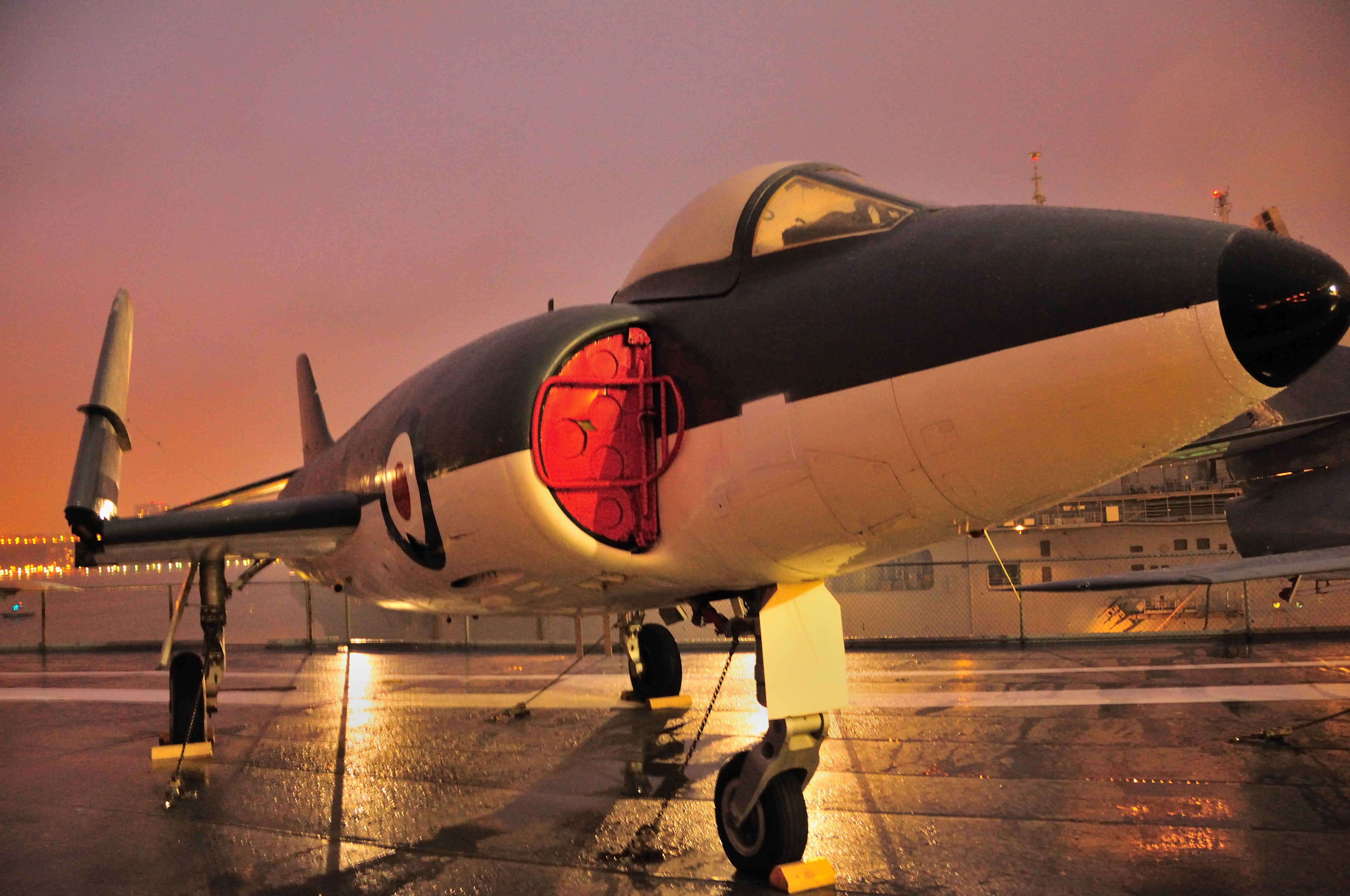 Supermarine Scimitar at Intrepid Sea-Air-Space Museum